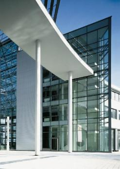 building of MD.H düsseldorf